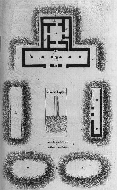 Plan of Mitla (Mexico)